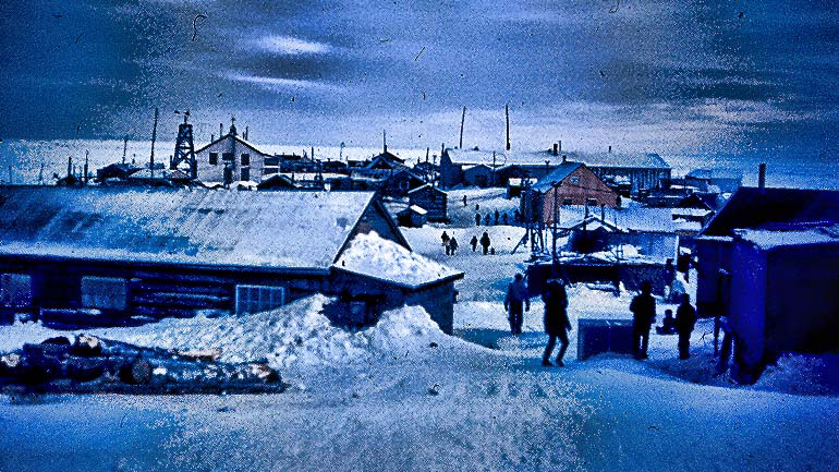 Hooper Bay in Winter